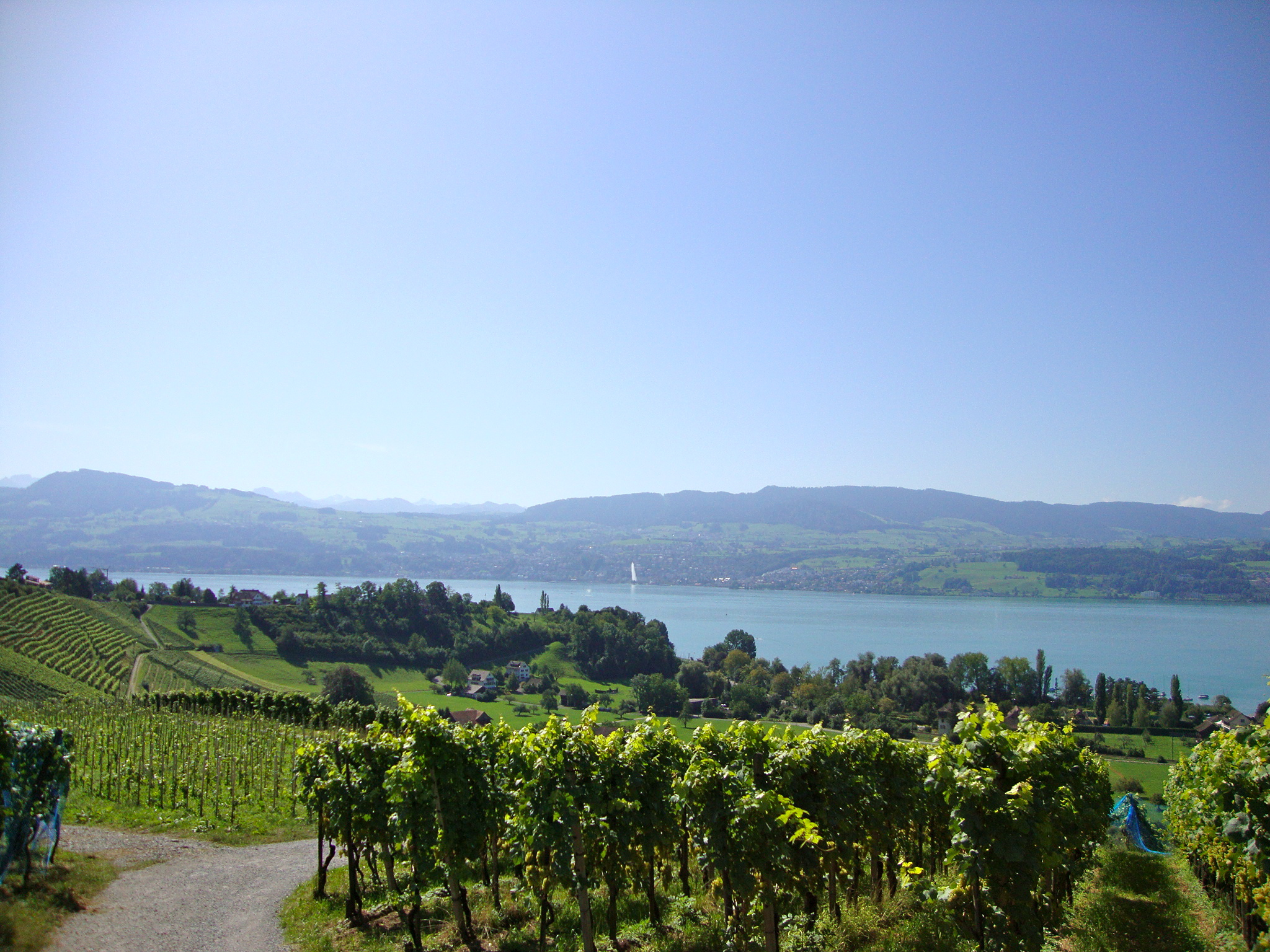 Mutzmalen and Lattenberg in summer